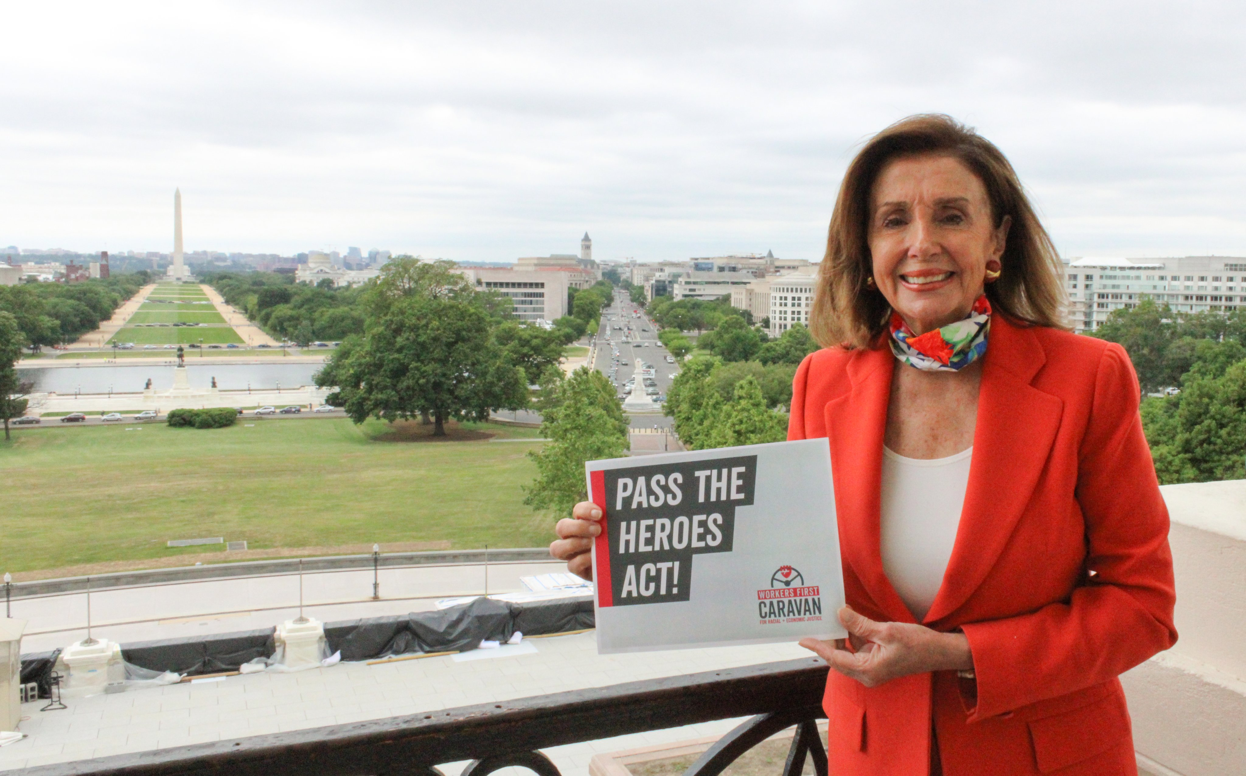 American workers are paying the price for Leader McConnell’s efforts to slow-walk our response to COVID-19. Truly inspiring to witness today’s caravan of workers in Washington, driving together to demand that the #SenateActNow to pass the #HeroesAct. #WorkersFirst